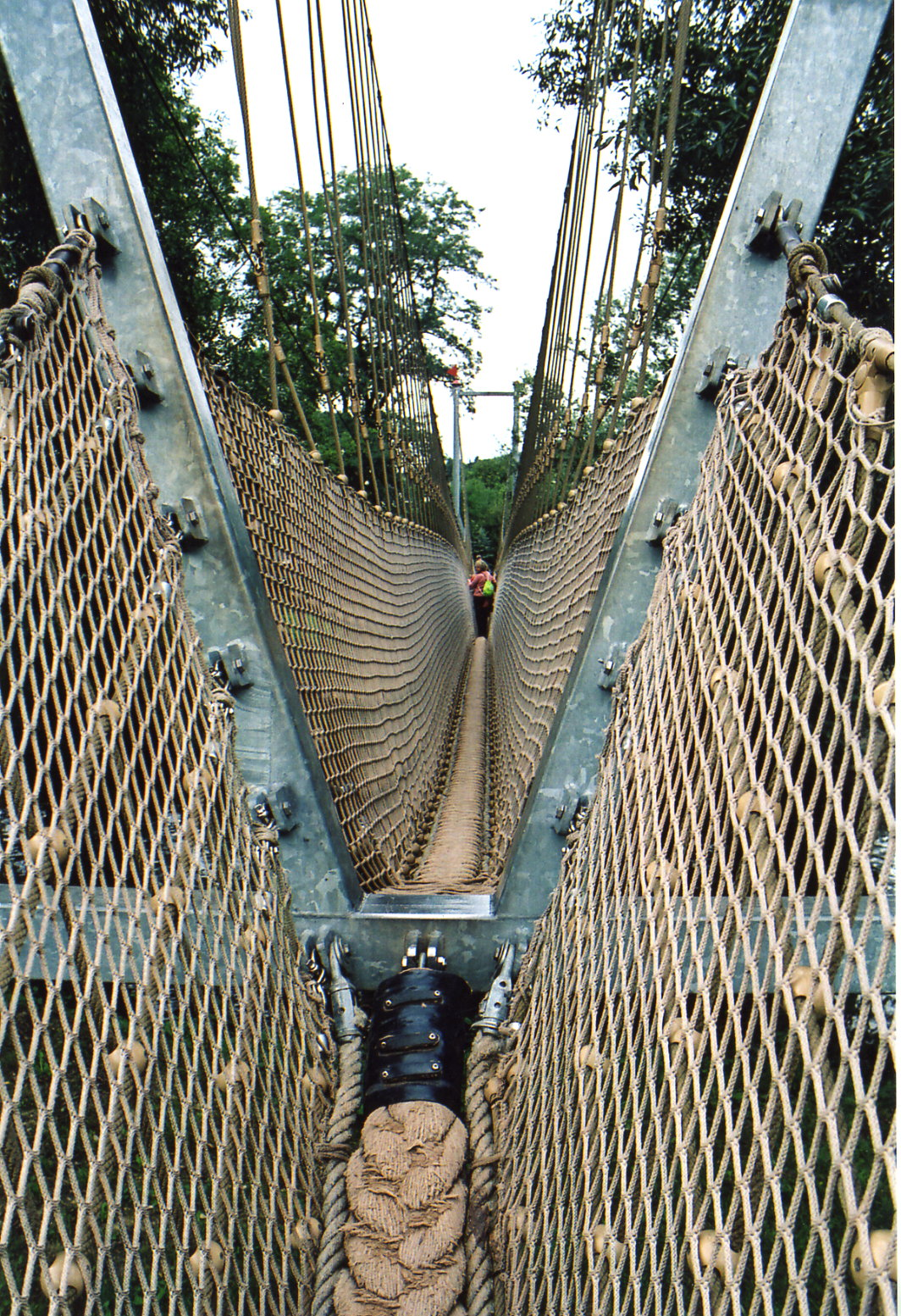 Bridge crossing the Nahe in the nude foot park in Bad Sobernheim, Rhineland-Palatinate, Germany.